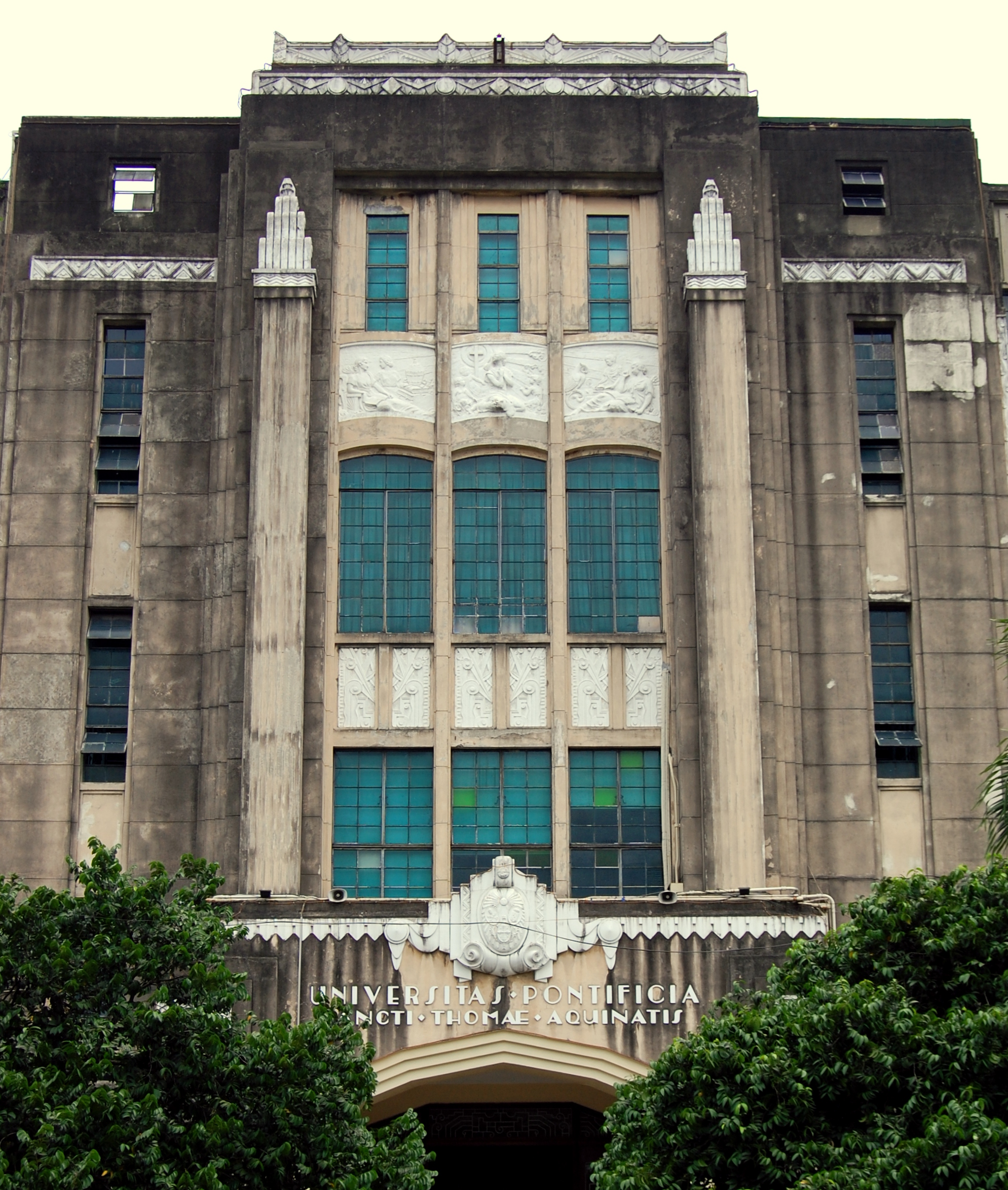 Facade of Central Seminary Building